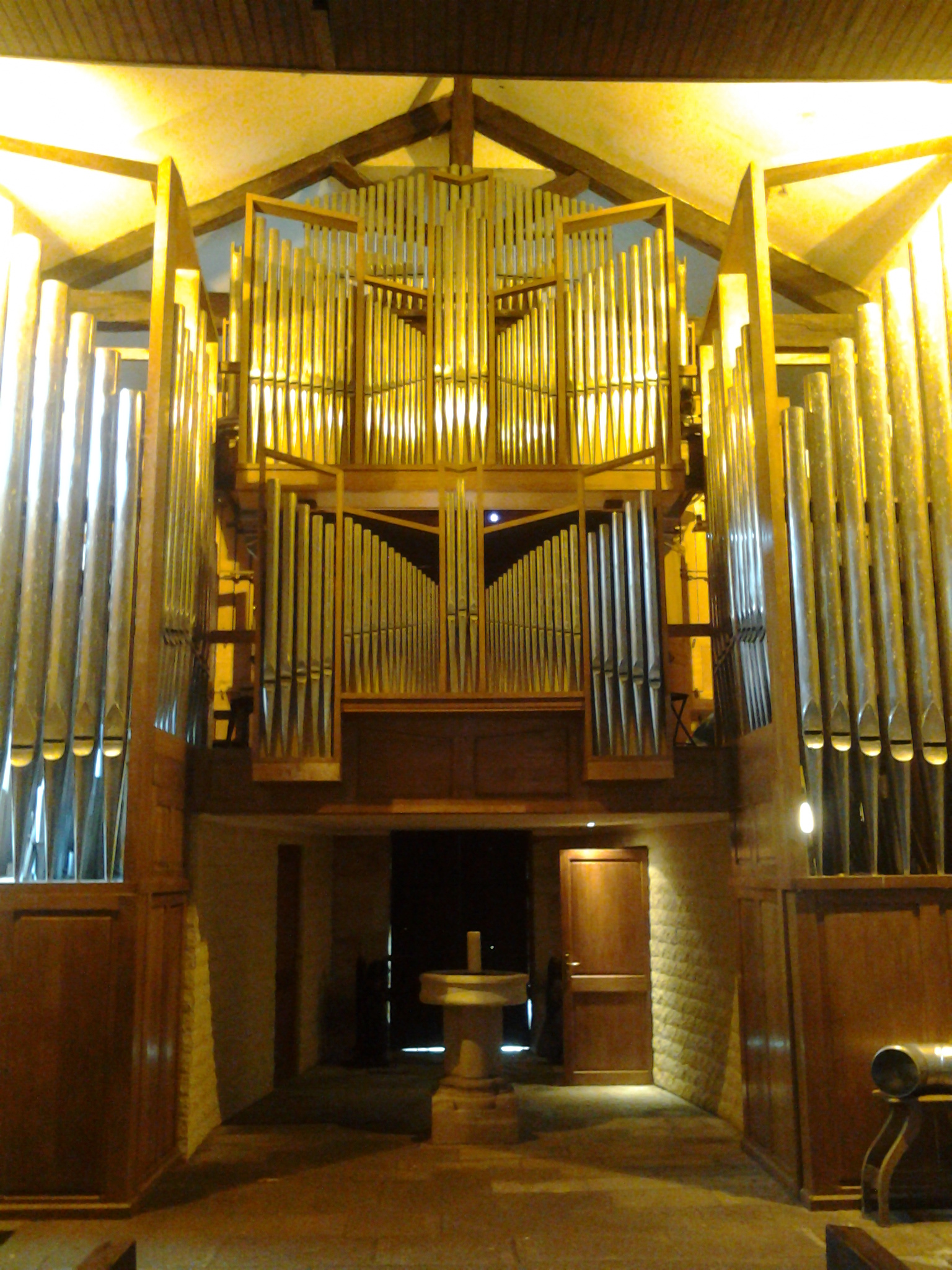 Organ named "Notre Dame" in Droiteval abbey, France